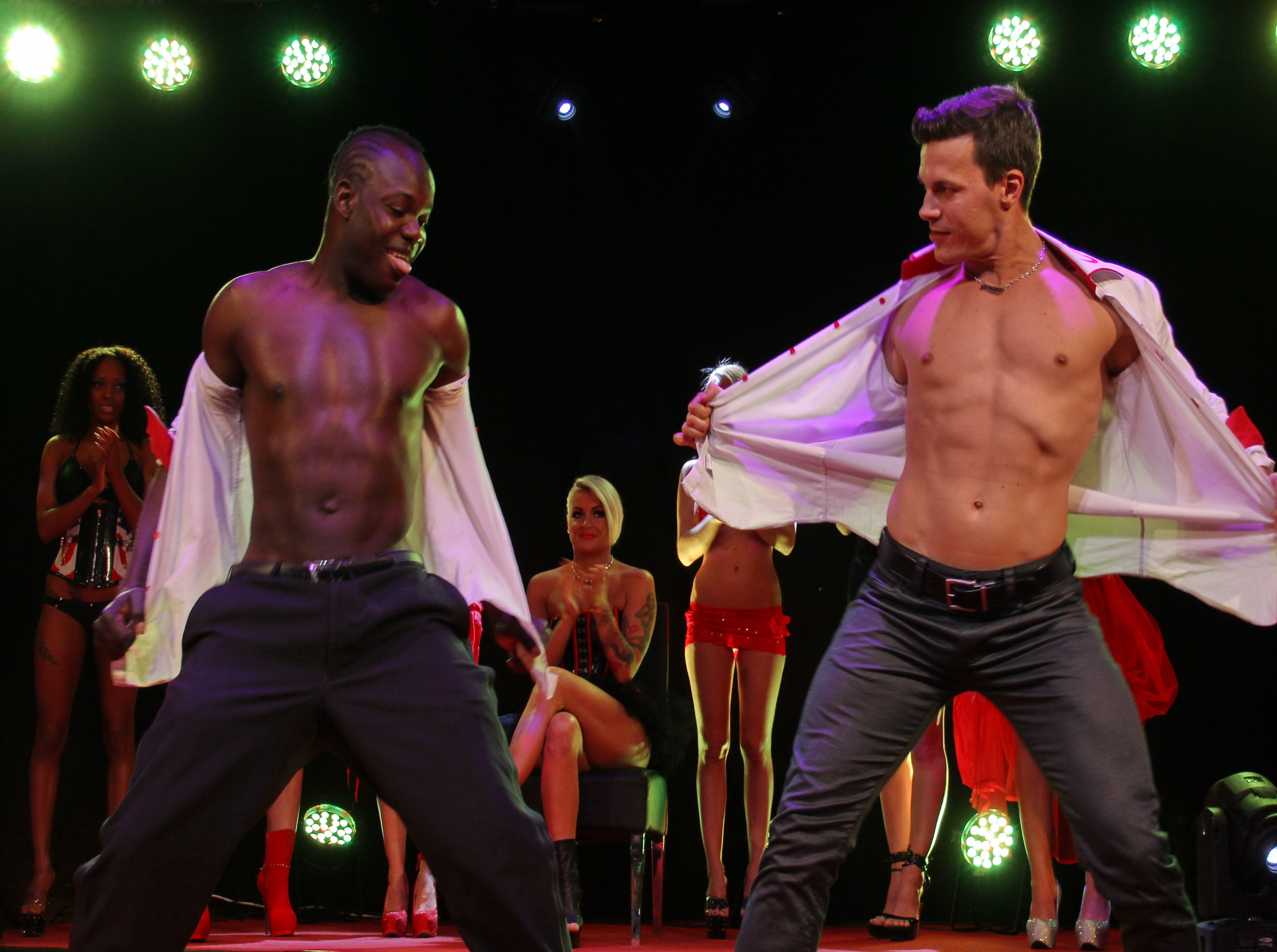 male strippers on the adult entertainment fair Eros & Amore in March 2013 in Munich, Germany